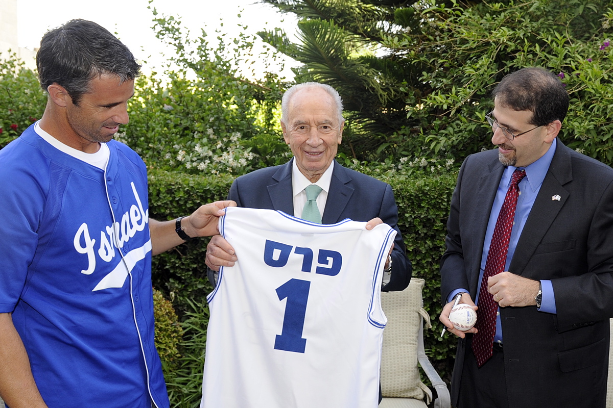 President of Israel Shimon Peres met with ex-professional Major League Baseball player Brad Ausmus.